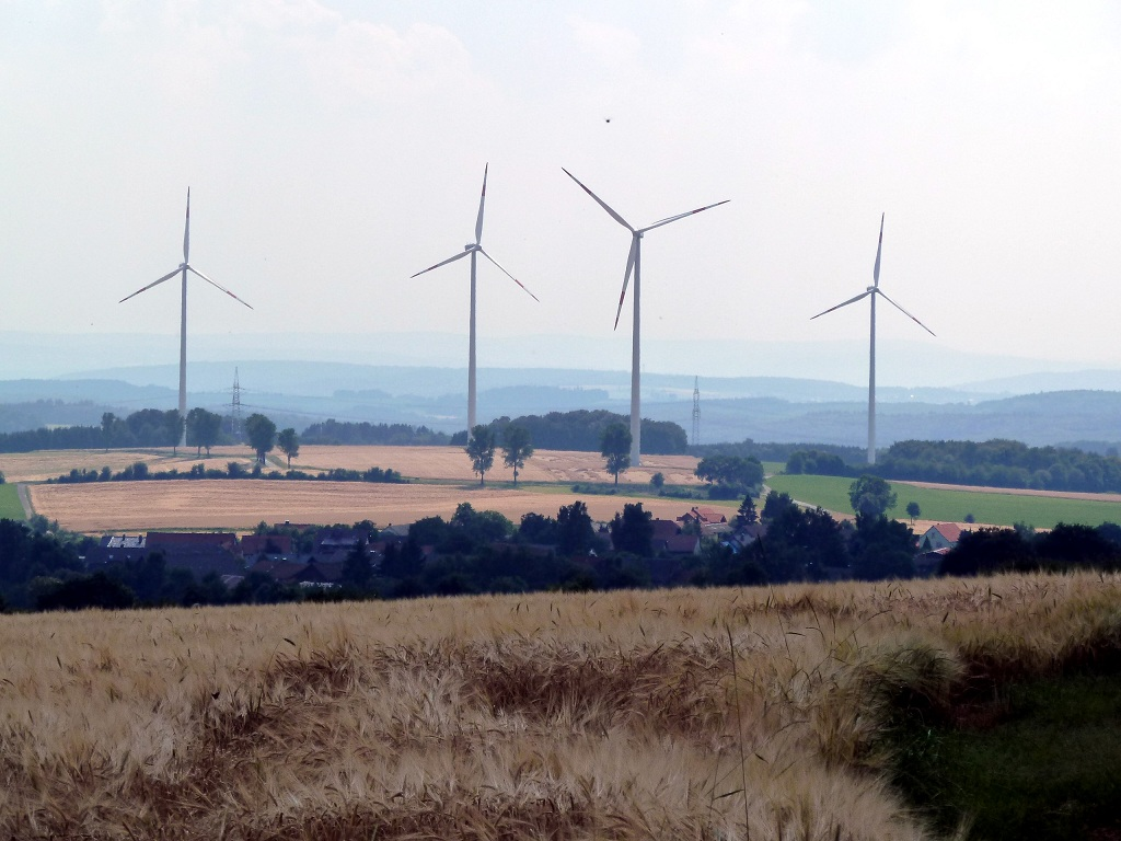 Wind turbines (Type: Vestas V90-2MW) in the Fleschenbach-Neustall wind farm, Hesse, Germany. The village of Fleschenbach lies in the foreground.